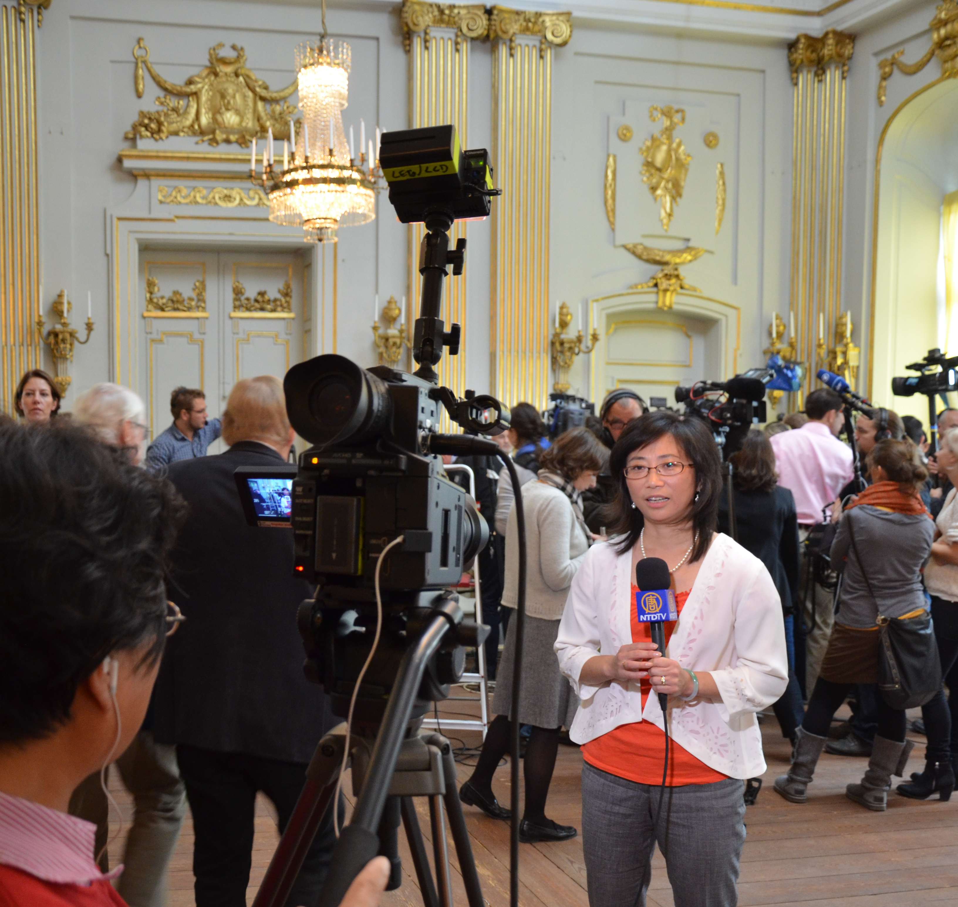 New Tang Dynasty Television correspondent comments on Nobel laureate Mo Yan at the announcement at the Royal Swedish Academy, Stockholm, Sweden, October 11, 2012